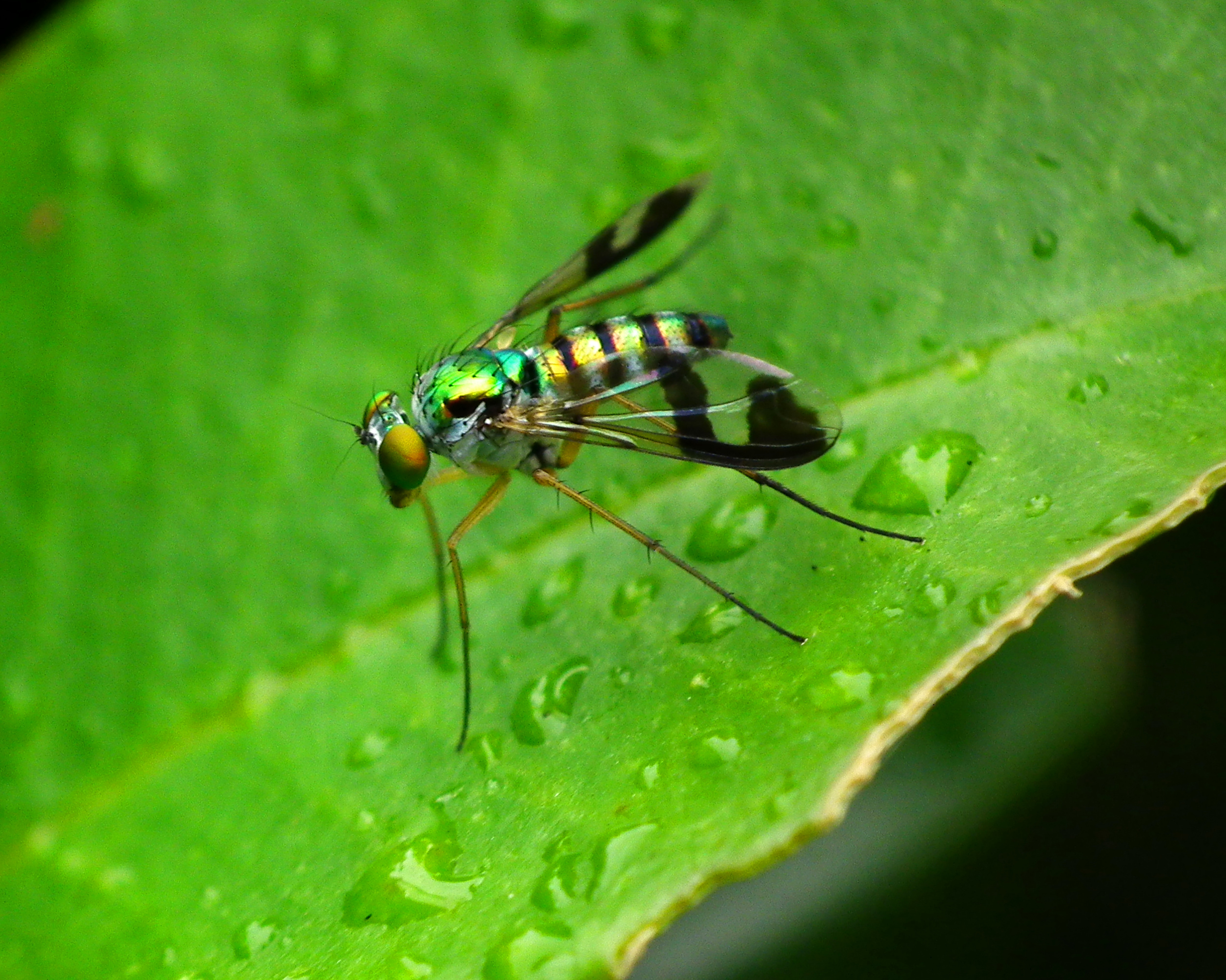 Taken in Brisbane, Queensland, Australia